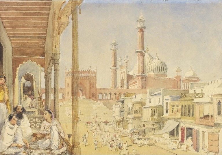 Jama Masjid, Delhi, painting, 1852.